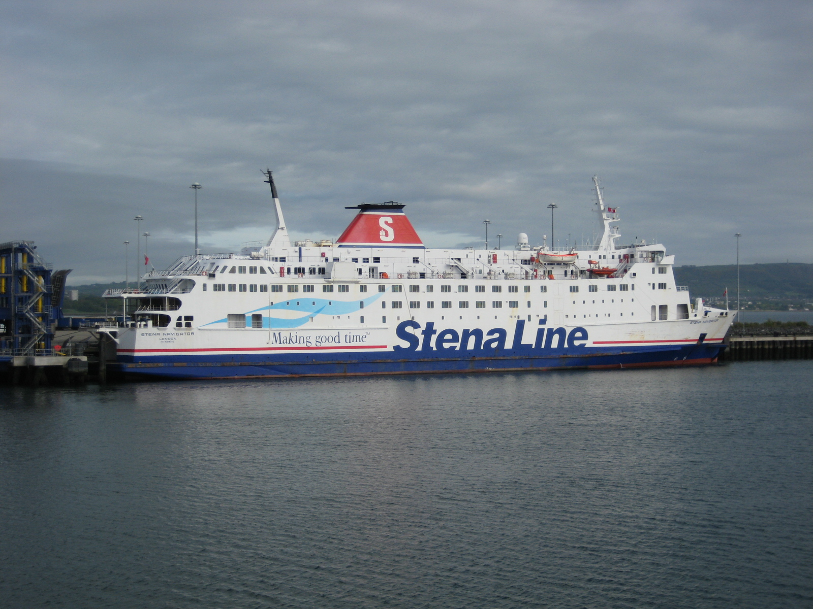 Stena Line ferry Stena Navigator in Belfast Information about Stena Navigator may be found at IMO 8208763.A ship can change name and flag state through time, but the IMO number remains the same through the hull's entire lifetime. As a result, it can be useful to identify a ship by using the IMO number.